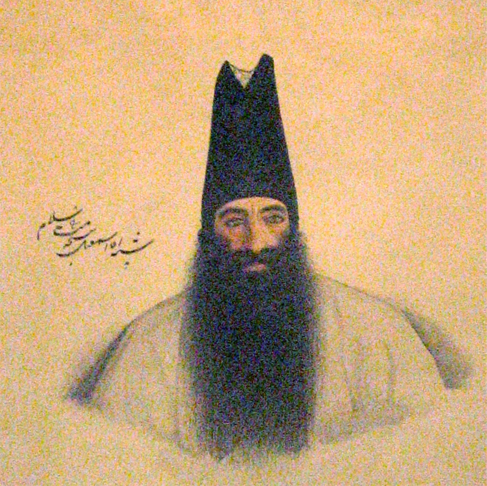 Portrait de Aqa Ismail, Butler levied, by Saniol Molk, XIXth century. National Iran Museum, Tehran.